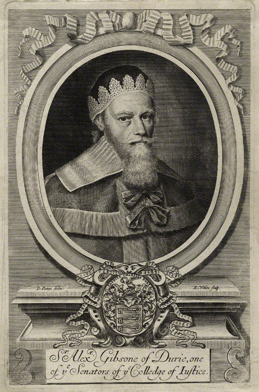 Portrait of Alexander Gibson, Lord Durie I (died 1644), Scottish judge and legal writer.